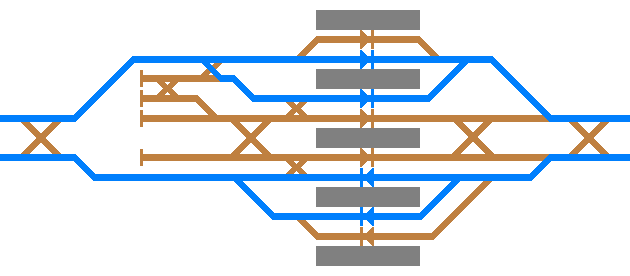 Diagram of railway track layout at Shin-Osaka station .